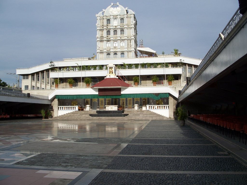 Pilgrim center at the Basilica Minore del Santo Niño in Cebu City